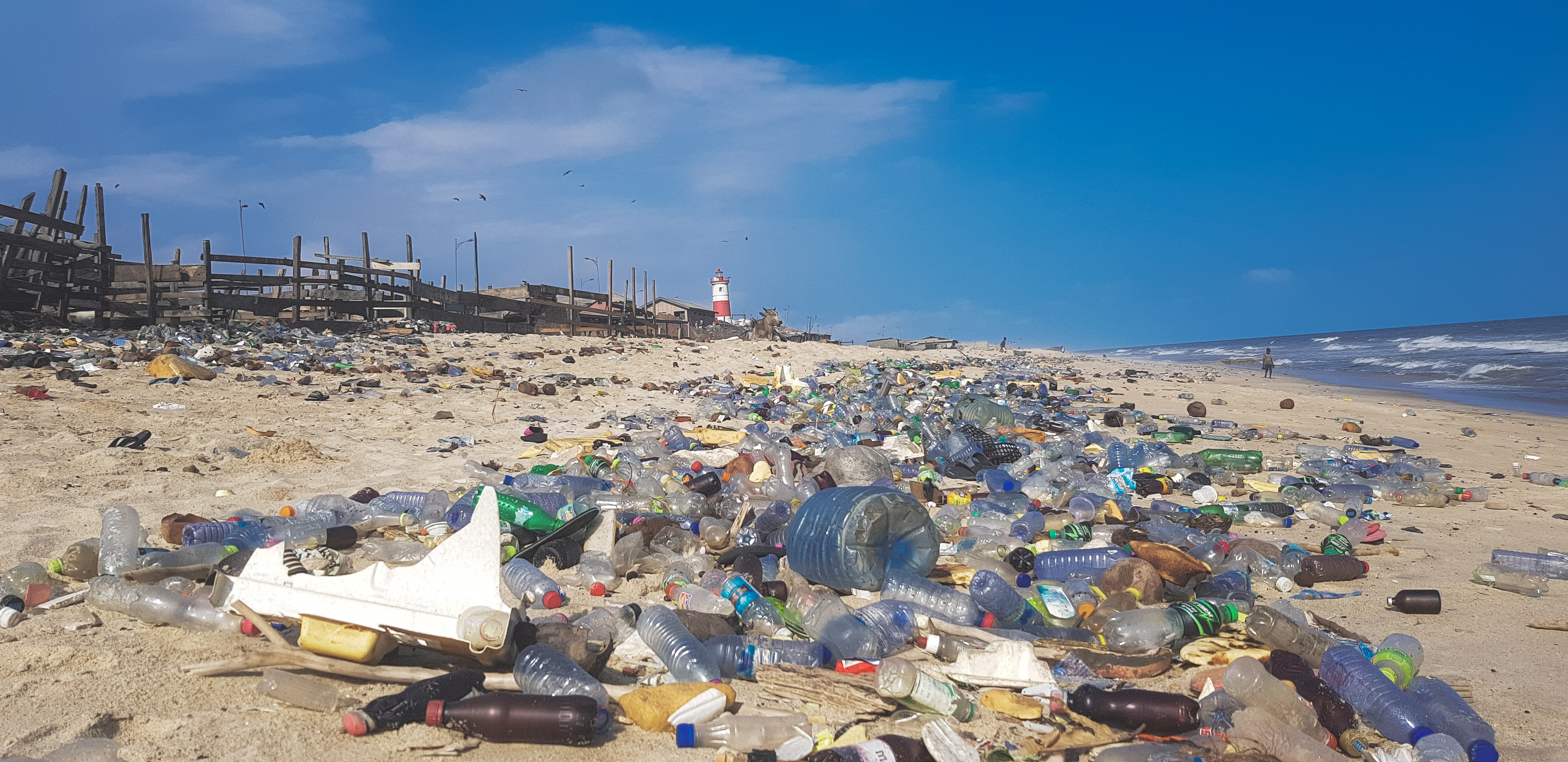 Plastic Pollution covering Accra beach